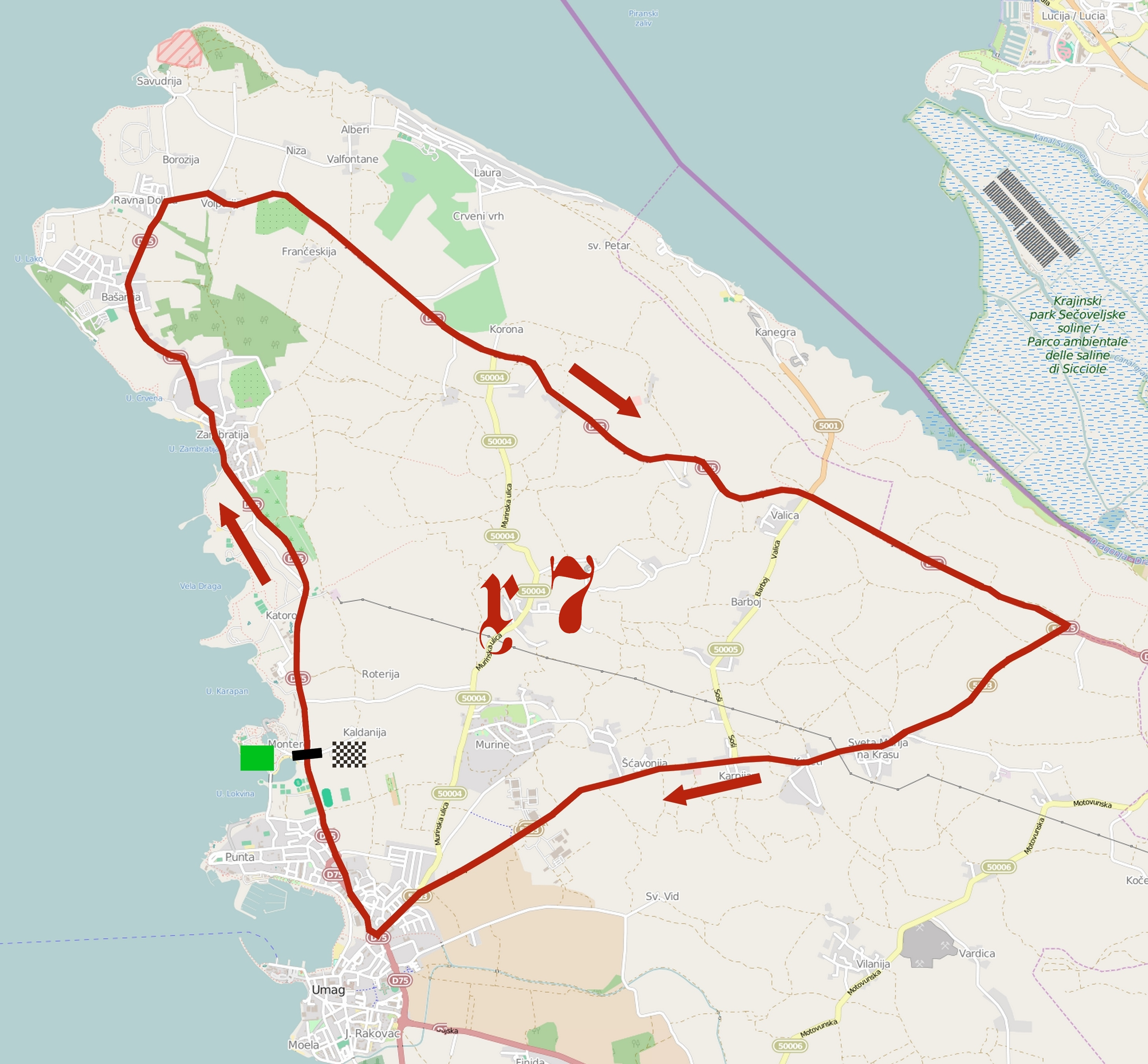 Parcours de l'Umag Trophy 2015. This map may be incomplete, and may contain errors. Don't rely solely on it for navigation.